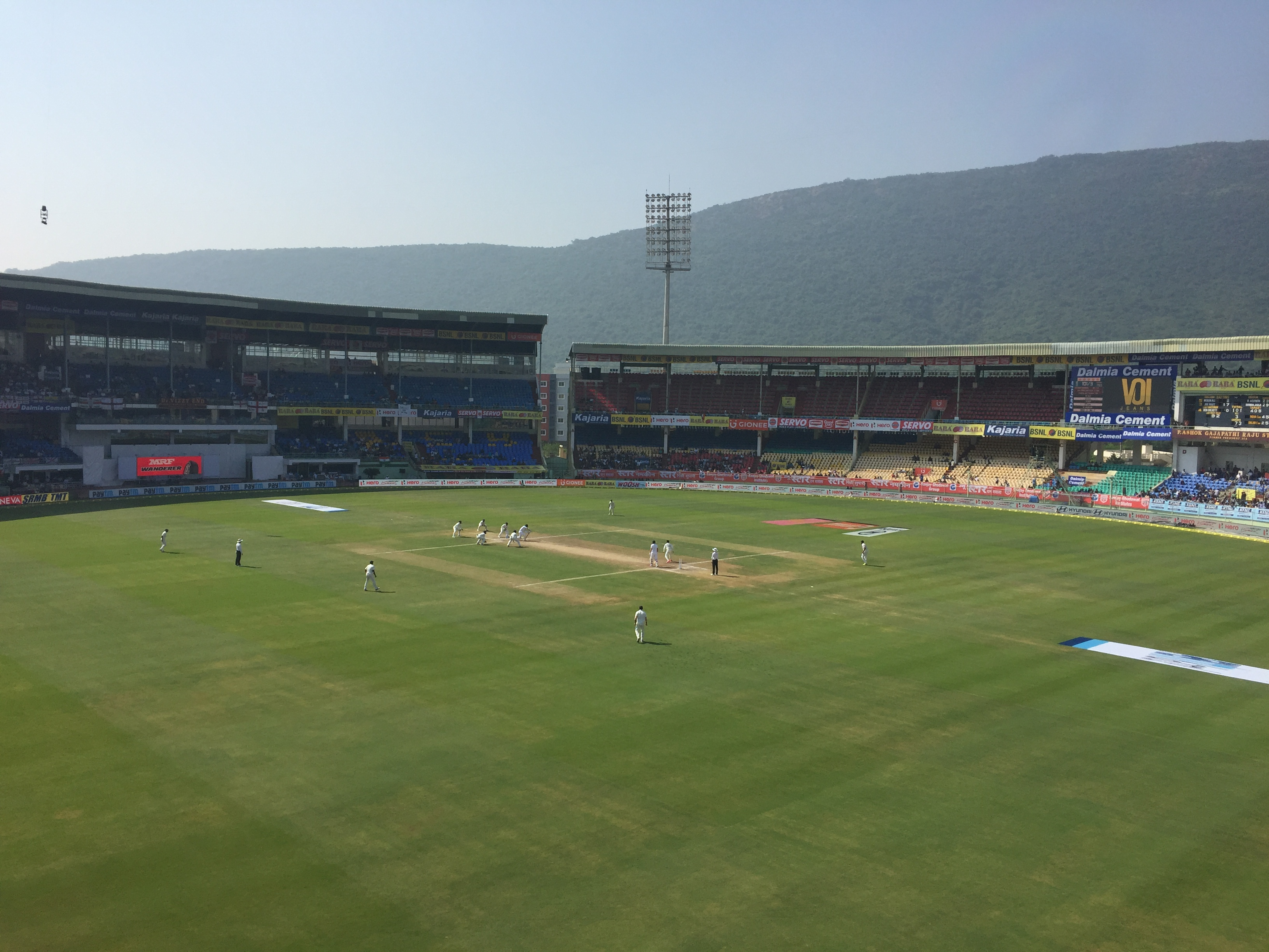 Vizag, 1st Test Match ever, India vs. England, 2nd innings. Dismissal of Moeen Ali. 21th november, 2016.